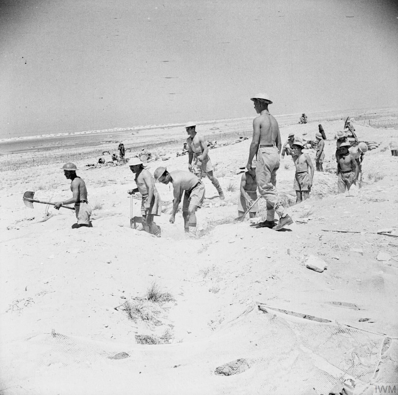 IWM caption : El Alamein 1942: British troops dig in at El Alamein during the first battle.